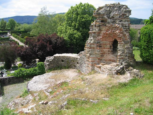 Konz Ruines of the Roman Palace (Imperial Villa)